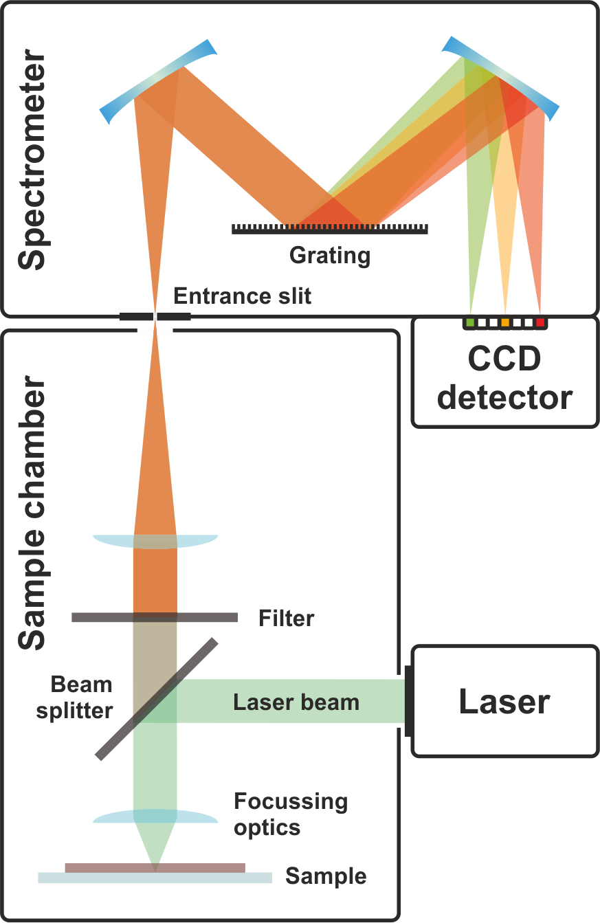 Schematic of one possible Raman spectroscopy setup using CCD detection (adapted from Thomas Schmid; Petra Dariz (2019). "Raman Microspectroscopic Imaging of Binder Remnants in Historical Mortars Reveals Processing Conditions". Heritage. 2 (2): 1662–1683. ISSN 2571-9408.).